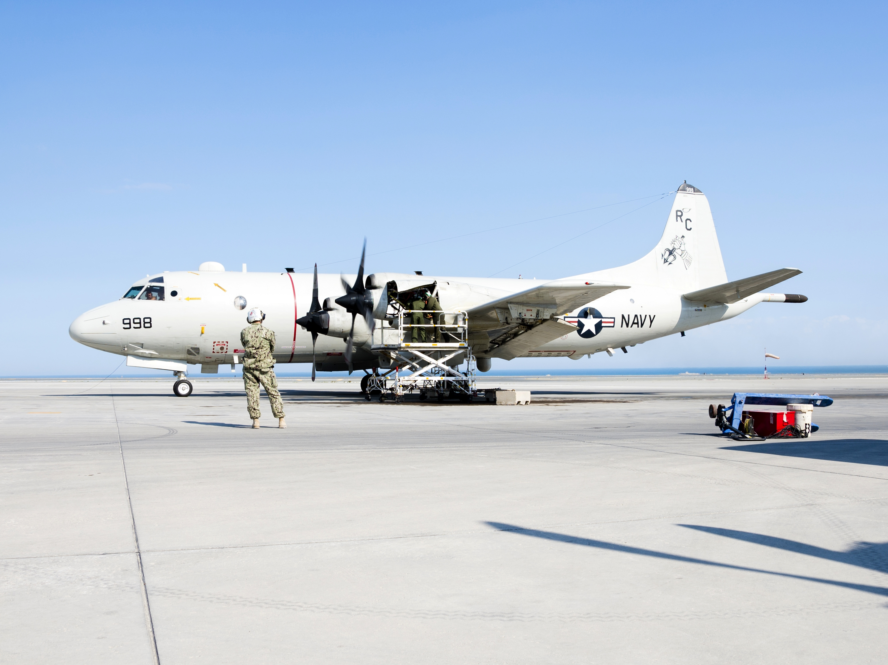 U.S. Navy Master Chief Anthony Garcia, assigned to Patrol Squadron 46 (VP-46) "Grey Knights", observes as sailors check the engine of a Lockheed P-3C Orion (BuNo 162998) during a maintenance check. VP-46 was deployed to the U.S. 5th Fleet and U.S. 7th Fleet areas of operations in support of operation "Inherent Resolve".